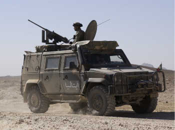 VTLM Lince, Italian army